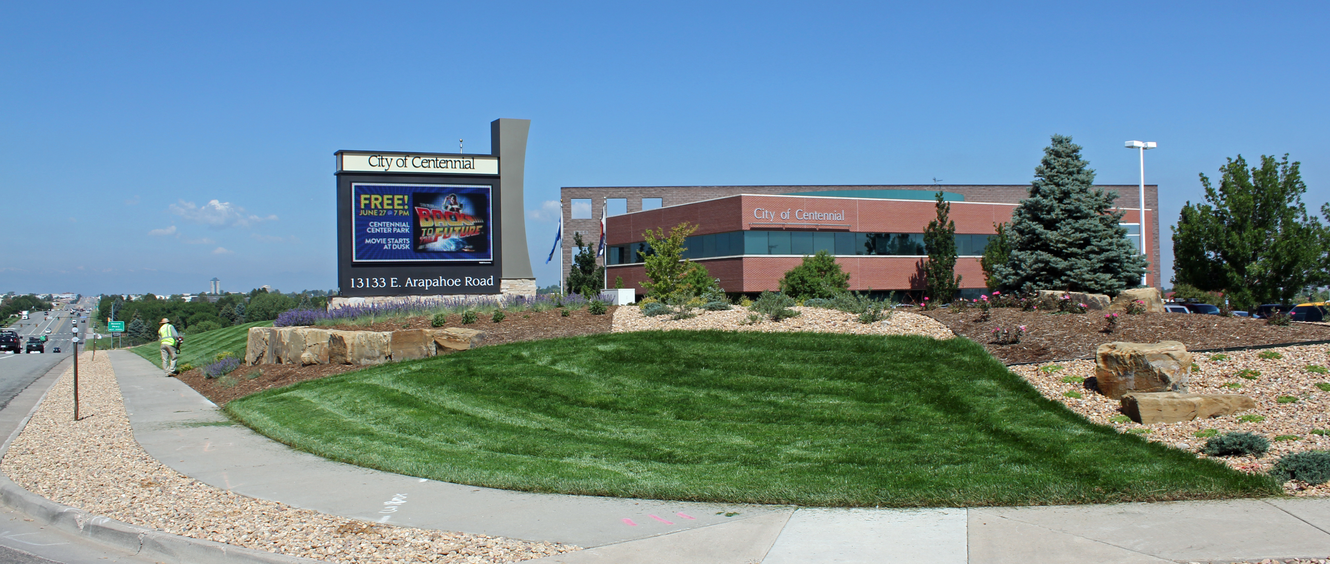 The Centennial Civic Center (City Hall), located at 13133 East Arapahoe Road in Centennial Colorado. The picture shows Arapahoe Road, looking west, the city's electronic sign, and the main civic center building, which is at a lower elevation behind the rise.